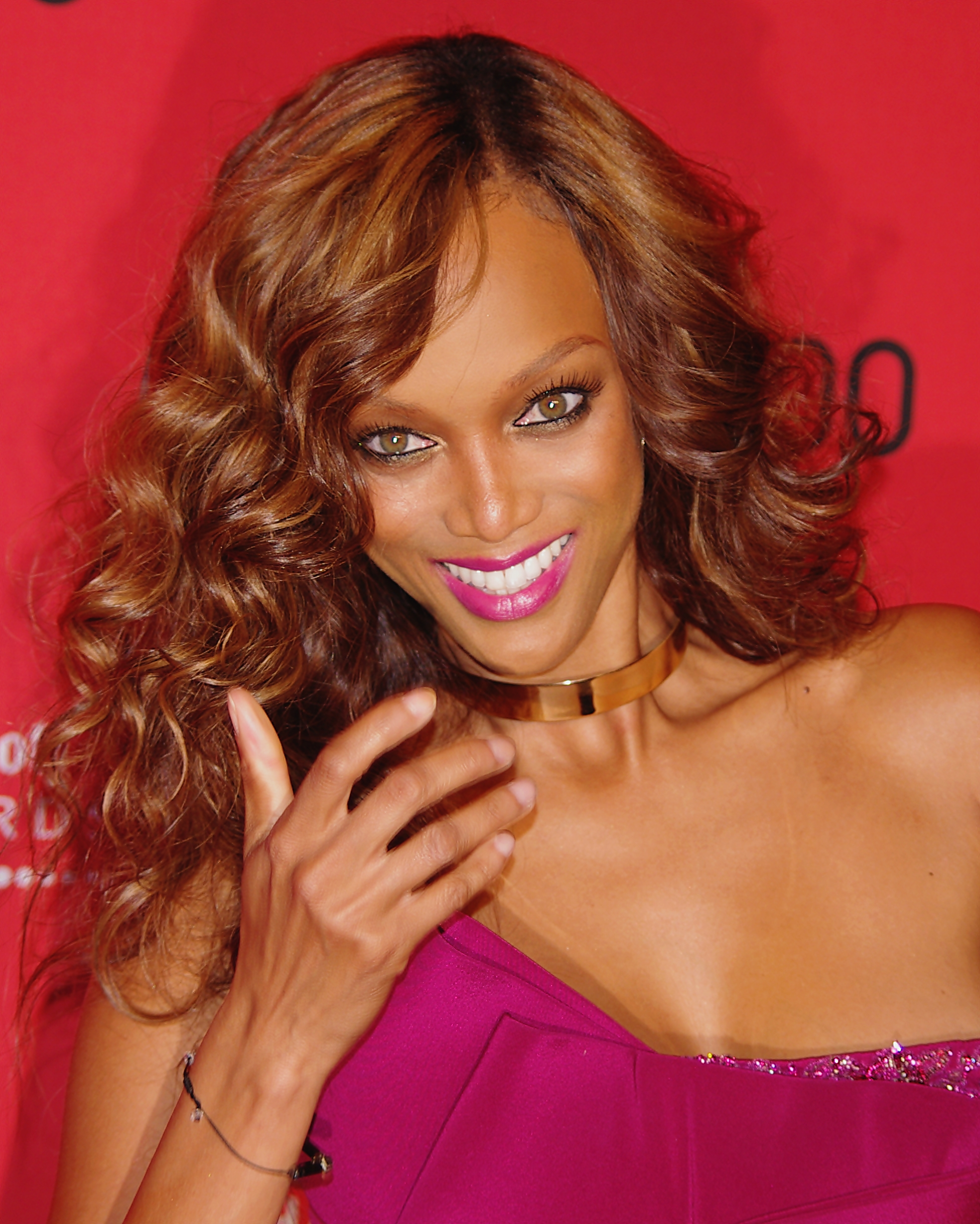 Tyra Banks at the 2012 Time 100 gala.